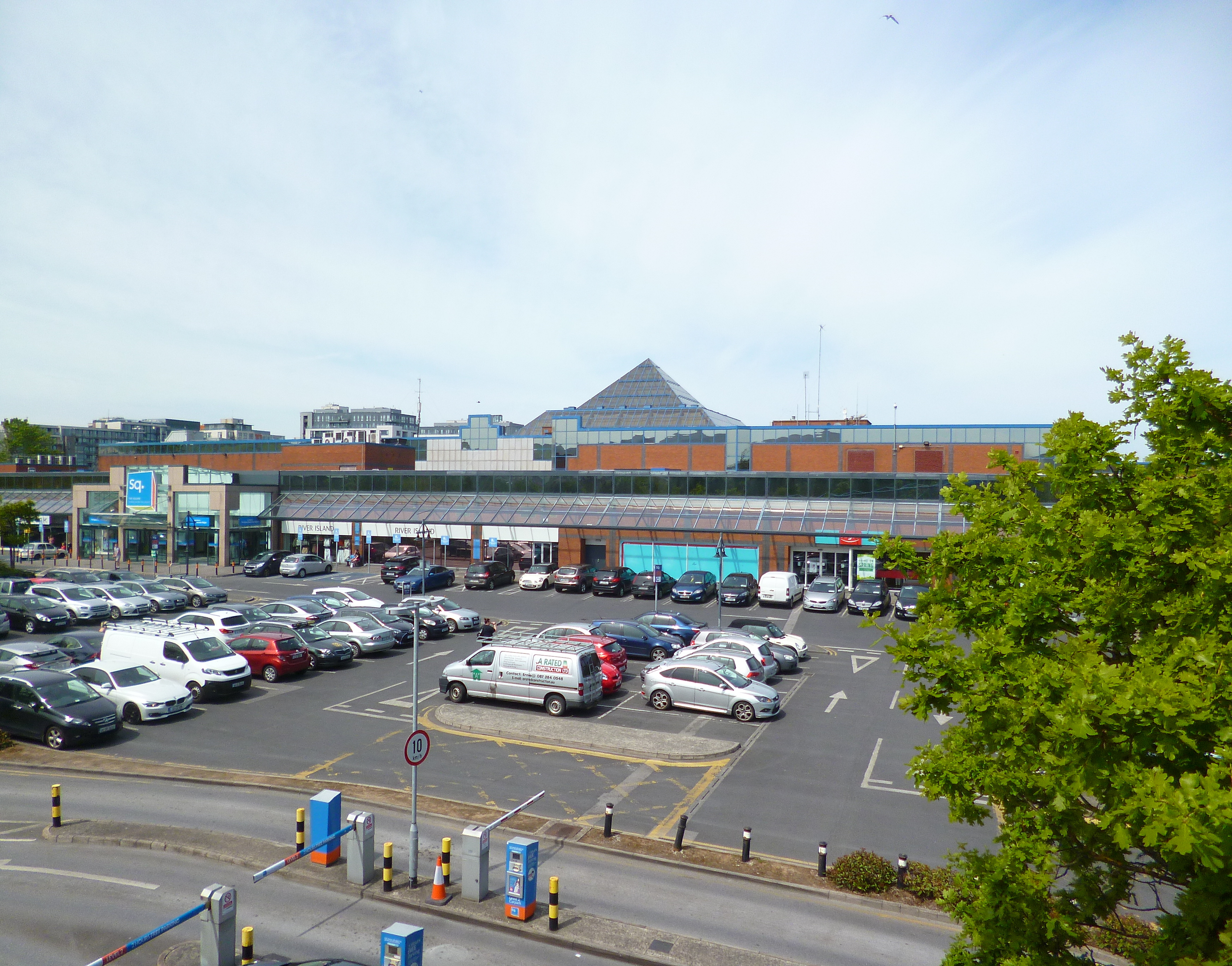 The Square Shopping Centre in Tallaght, Ireland